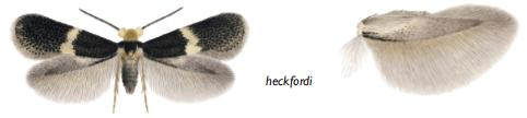 Ectoedemia heckfordi male and male hindwing